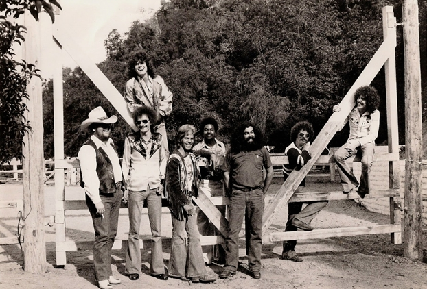 Photograph of Rare Earth in 1973